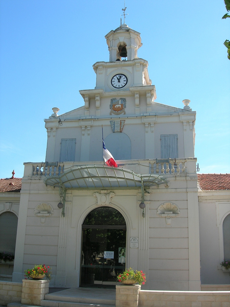 Town Hall of Saint Martin de Crau